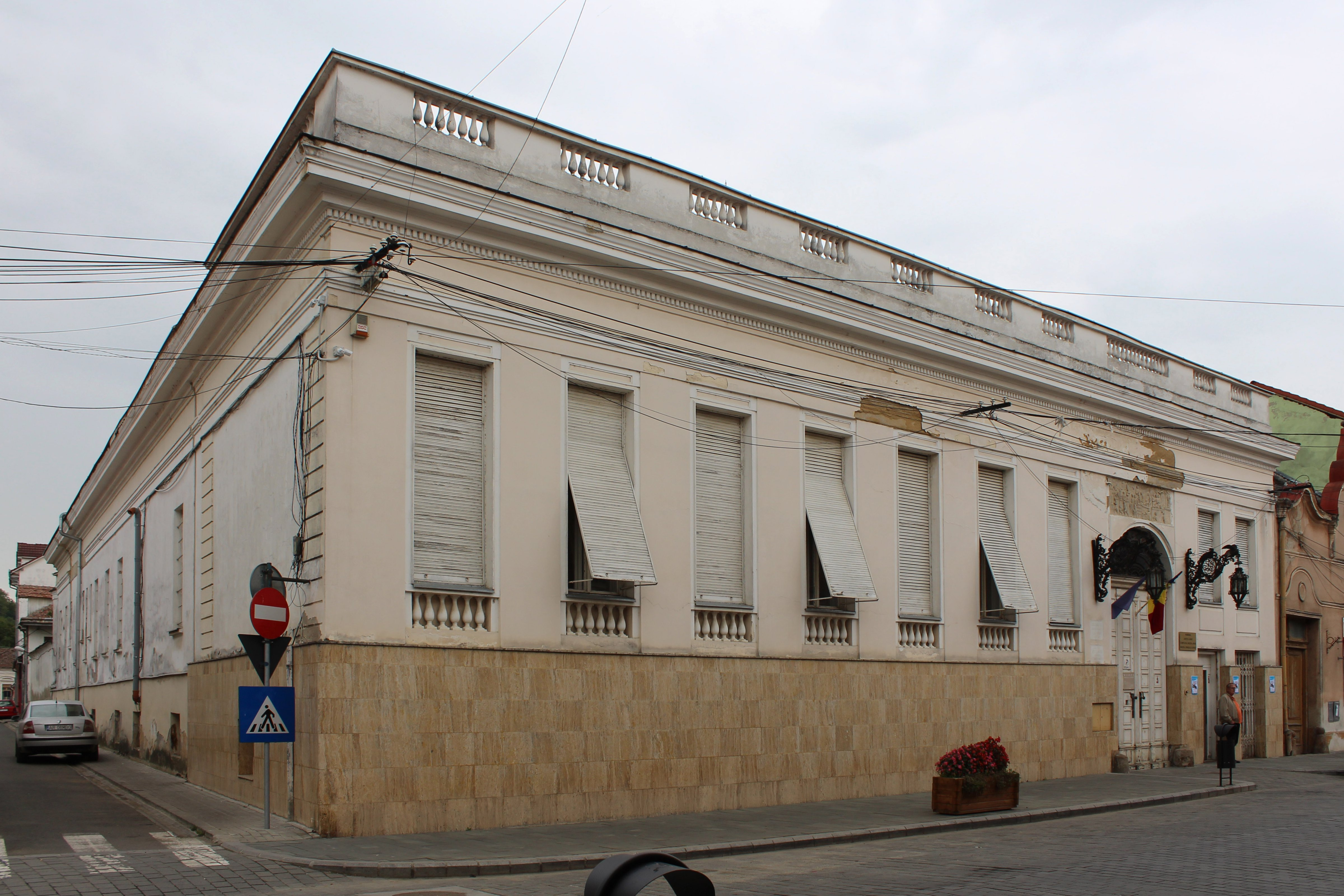 Mișici-Bocu House, today City Museum of Lipova, Romania. Built before 1850.